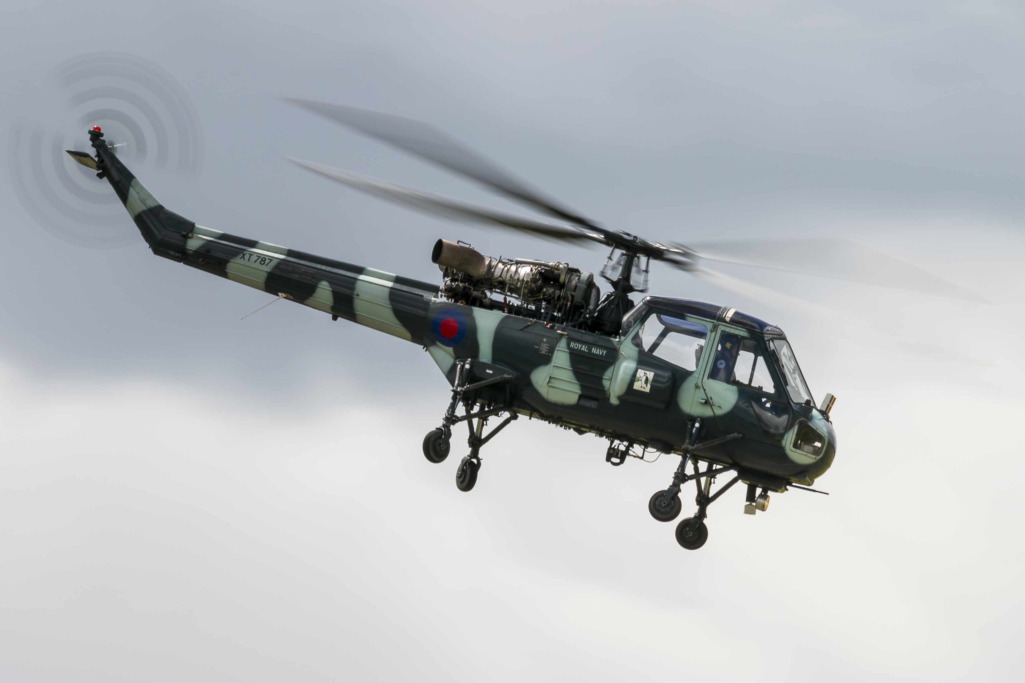 Westland Wasp Historic Flight